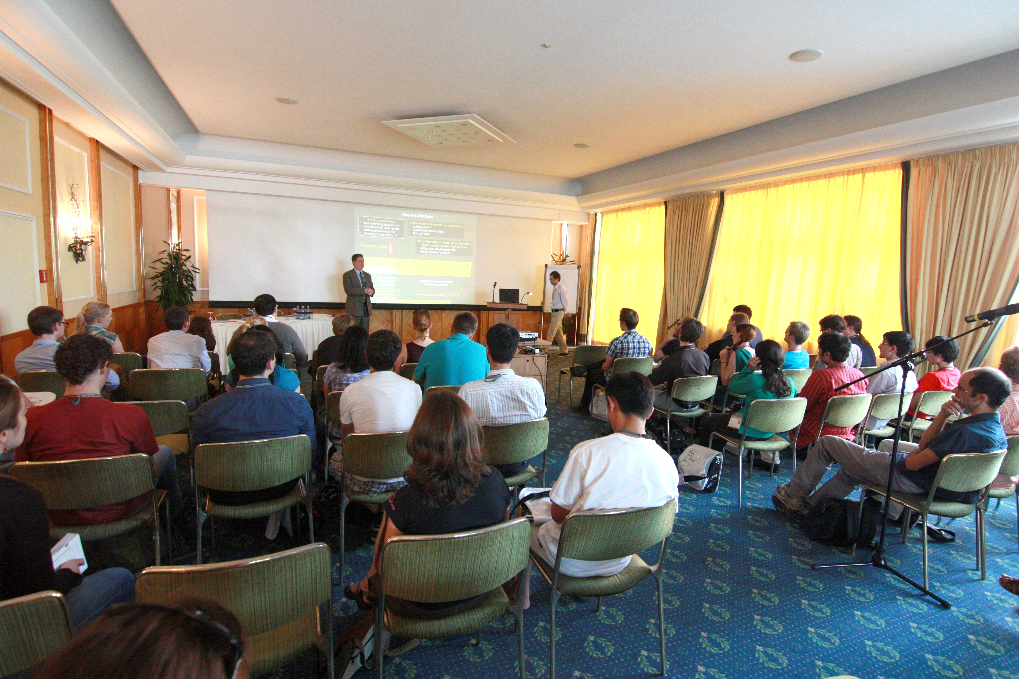 Masterclass by George Smoot at the 2012 Lindau Nobel Laureate Meeting